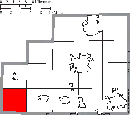 Map of the municipal and township boundaries of Medina County, Ohio, United States, as of the 2000 census, with the location of Homer Township highlighted. Township borders are shown only in unincorporated areas in order to differentiate incorporated and unincorporated areas more clearly.